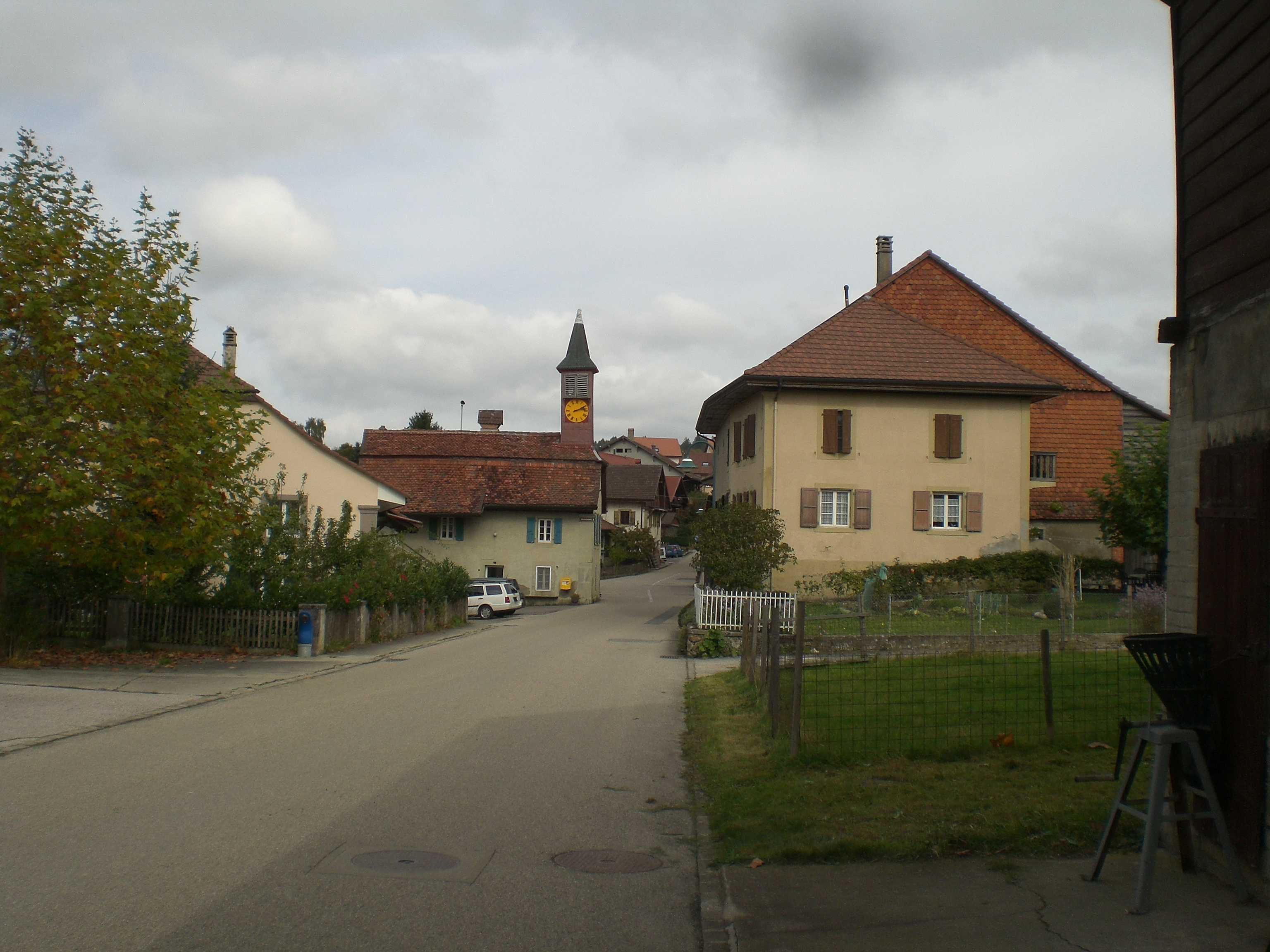 Church and village of Chapelle-sur-Moudon, canton of Vaud, Switzerland